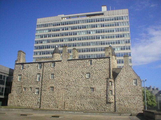 Provost Skene's House and St. Nicholas House The grotesque monster of St. Nicholas House - housing the council headquarters - is seen towering over the 16th Century Provost Skene's House. Provost Skene's was in a bad state of disrepair and was threatened with demolition in the 1930s when the surrounding slum houses were razed to the ground. Fortunately it was saved and is now open to the public. The 1960s abomination that looms behind it is widely regarded as the biggest eyesore in Aberdeen and looks likely to be bulldozed sometime during the next few years.